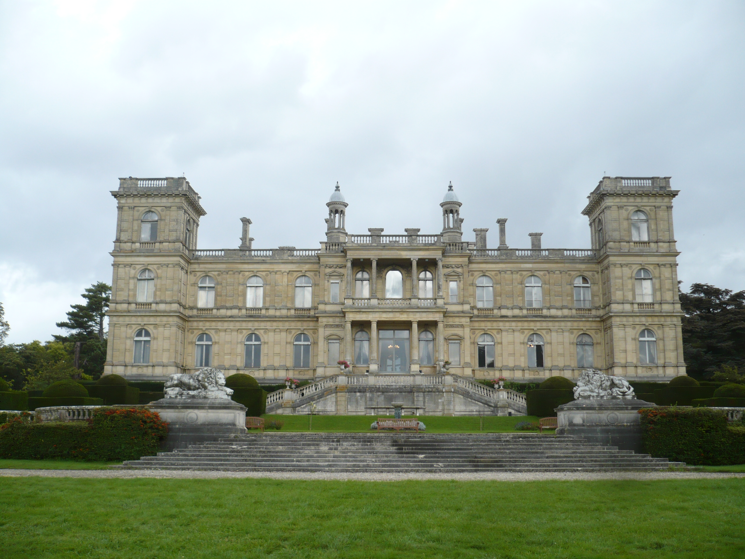 Château de Ferrières. Picture taken during European_Heritage_Days 2011.